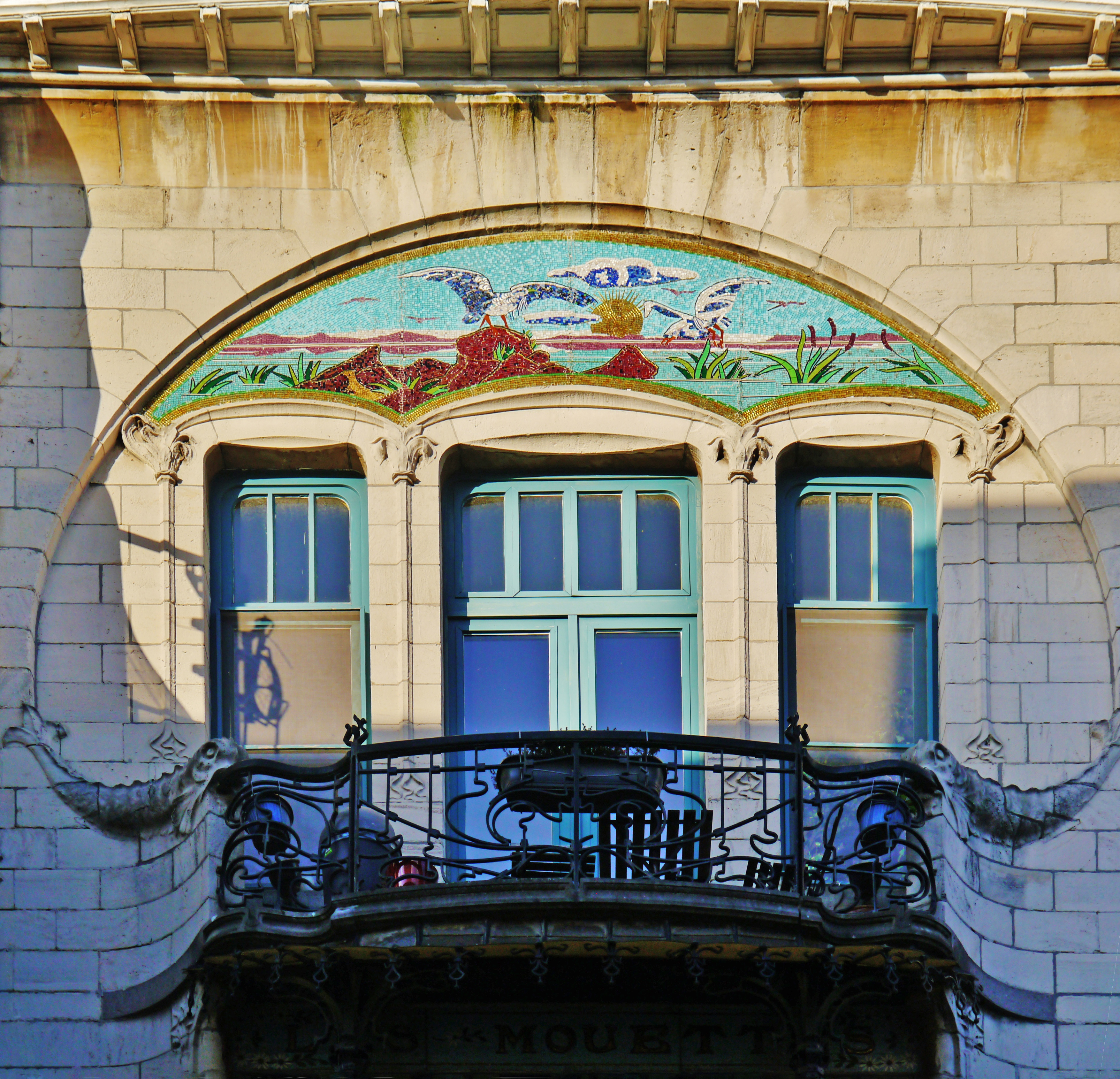 Art Nouveau Architecture in Waterloo Street, Antwerp, Province of Antwerp, Flanders, Belgium